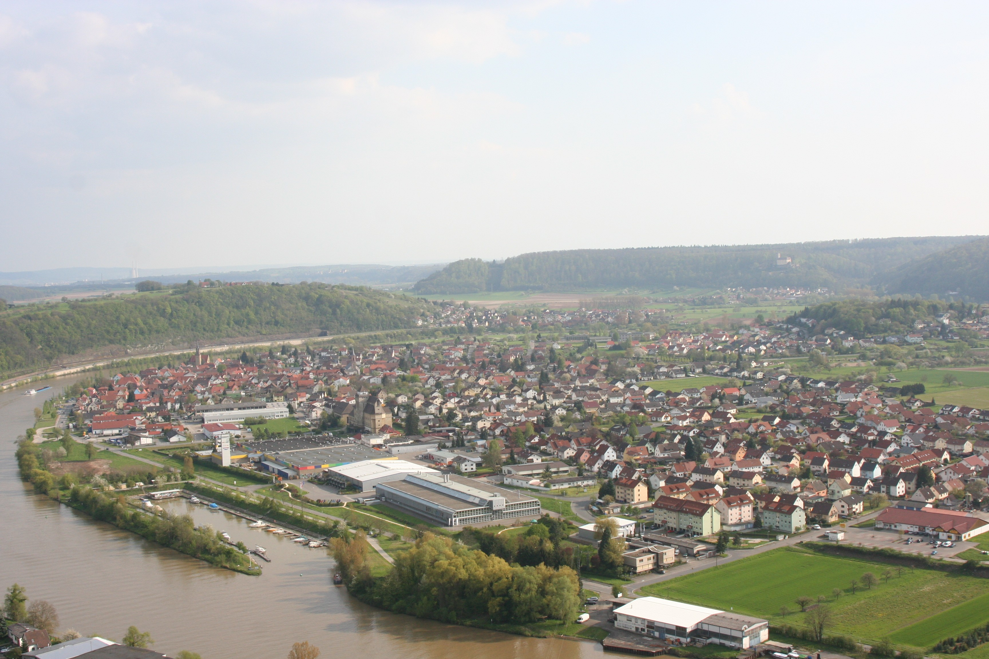 Haßmersheim as seen from the donjon of Hornberg castle